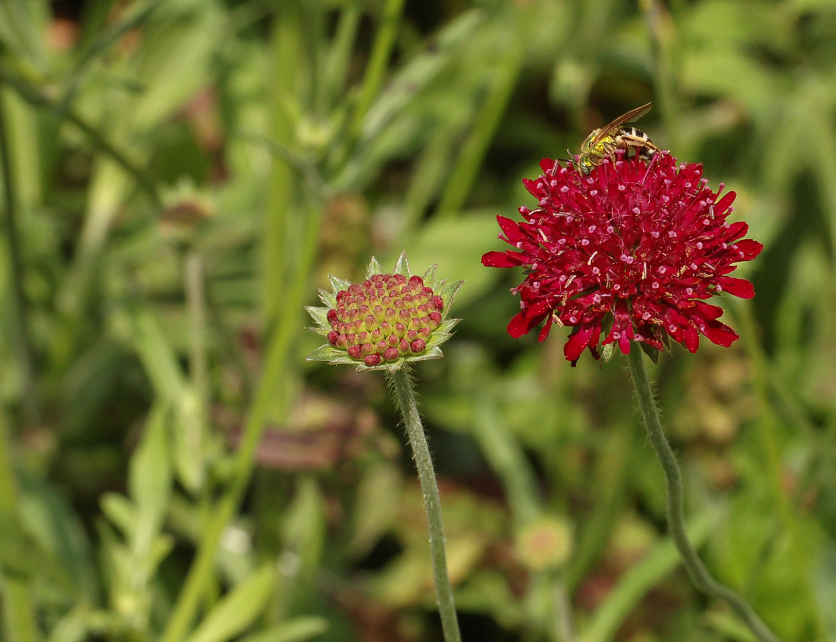 Picture of an Knautiaen (Knautia macedonica en ) flower. Photo taken in the Tennis Court garden at the Chanticleer Garden where it was species identified.